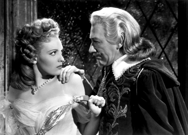 Promotional still from the 1947 film Forever Amber Caption reads as follows: 11. When he discovers her unfaithfulness the Earl attempts to kill Amber, but she escapes. The Earl's butler murders him during the London fire of 1666. Amber now has title and wealth.